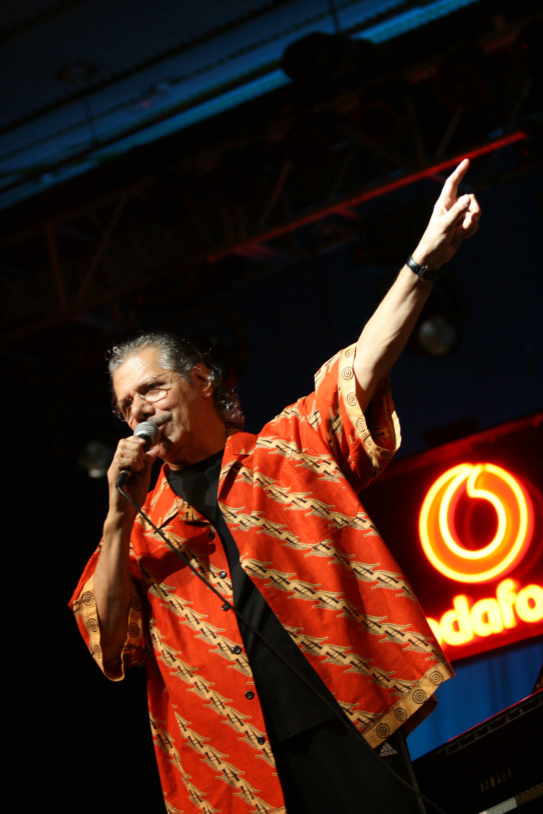 Chick Corea at the Festival de Jazz de Vitoria 2010